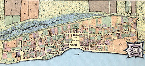 A portion of Thomas Jeffrey's 1763 map of St. Augustine, Florida